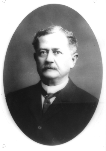 Portrait of Isaac S. Hopkins, the first president of Georgia Tech